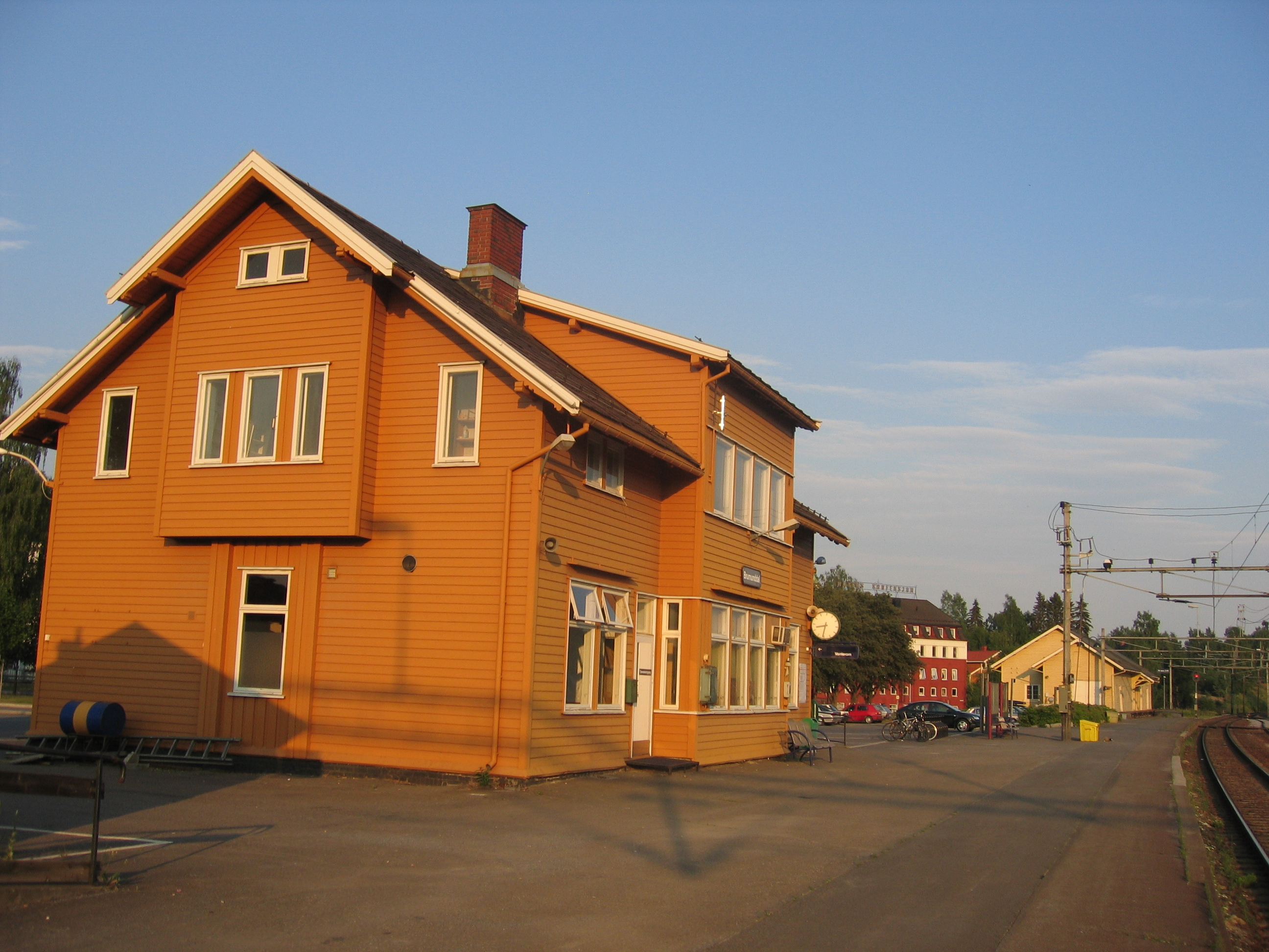 Brumunddal train station, Hedmark, Norway.